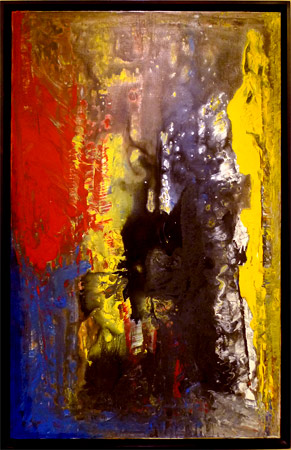 This is a painting by the Winston Branch, a British artist originally from Saint Lucia, the sovereign island in the Caribbean Sea. Works by Mr. Branch are included in the collections of Tate Britain, The Legion of Honor De Young Museum San Francisco CA, and the St. Louis Museum of Art MO.